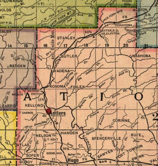 Premier series 1905 map of Oklahoma Territory and Indian Territory.